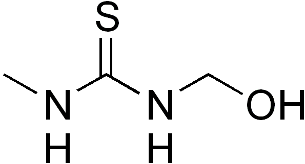 chemical structure of noxytiolin